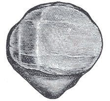 Posterior surface of the right patella, showing diagrammatically the areas of contact with the femur in different positions of the knee.